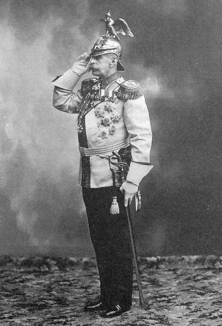 Frederiks V.B. 1913 Ministr